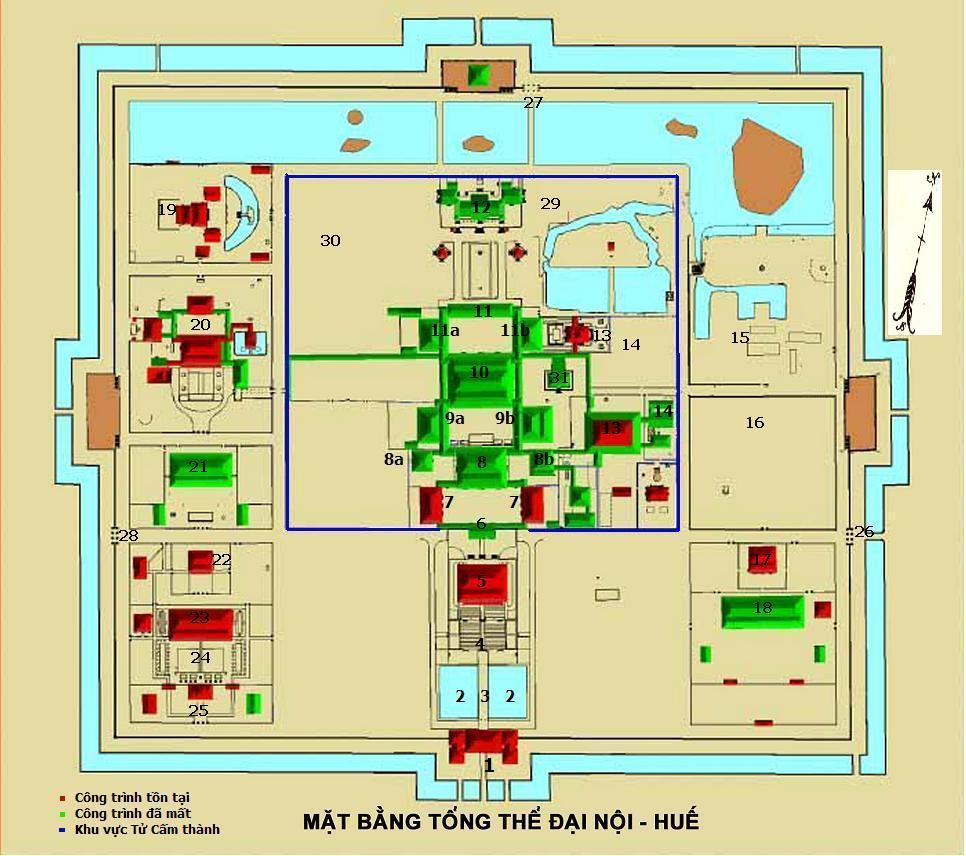 Plan of Great Enclosure, Hue, Vietnam. 1. Meridian Gate (Ngọ Môn) 2. Thái Dịch Lake (Hồ Thái Dịch) 3. Trung Đạo Bridge (Cầu Trung Đạo) 4. Esplanade of Great Salutation (Sân Đại Triều) 5. Hall of Supreme Harmony (Điện Thái Hoà) 6. Main Gate of Forbidden Purple City (Đại Cung môn) 7. Left House, Right House (Tả vu, Hữu vu) 8. King’s Official Working Place (Điện Cần Chánh) 8a. (Điện Võ Hiển) 8b. (Điện Văn Minh) 9a. (Điện Trinh Minh) 9b. (Điện Quang Minh) 10. King’s Residence (Điện Càn Thành) 11. Queen’s Residence (Điện Khôn Thái) 11a. (Viện Thuận Huy) 11b. (Viện Dưỡng Tâm) 12. Kiến Trung Pavillion (Lầu Kiến Trung) 13. Royal Reading Pavillion (Thái Bình Lâu) 14. Royal Park (Vườn Ngự Uyển) 15. Cơ Hạ Park (Vườn Cơ Hạ) 16. Interior Treasury (Phủ Nội Vụ) 17. Triệu Temple (Triệu Miếu) 18. Thái Temple (Thái Miếu) 19. Grand Queen Mother’s Residence (Cung Trường Sanh) 20. Queen Mother’s Residence (Cung Diên Thọ) 21. Phụng Tiên Temple (Điện Phụng Tiên) 22. Hưng Temple (Hưng Miếu) 23. Thế Temple (Thế Miếu) 24. Nine Dynastic Urns (Cửu Đỉnh) 25. Hiển Lâm Pavillion (Hiển Lâm Các) 26. Hiển Nhơn Gate (Cửa Hiển Nhơn) 27. Hoà Bình Gate (Cửa Hoà Bình) 28. Chương Đức Gate (Cửa Chương Đức) 29. Royal Office (Ngự Tiền Văn phòng) 30. Harem (Lục Viện) 31. Minh Thận Temple (Điện Minh Thận)